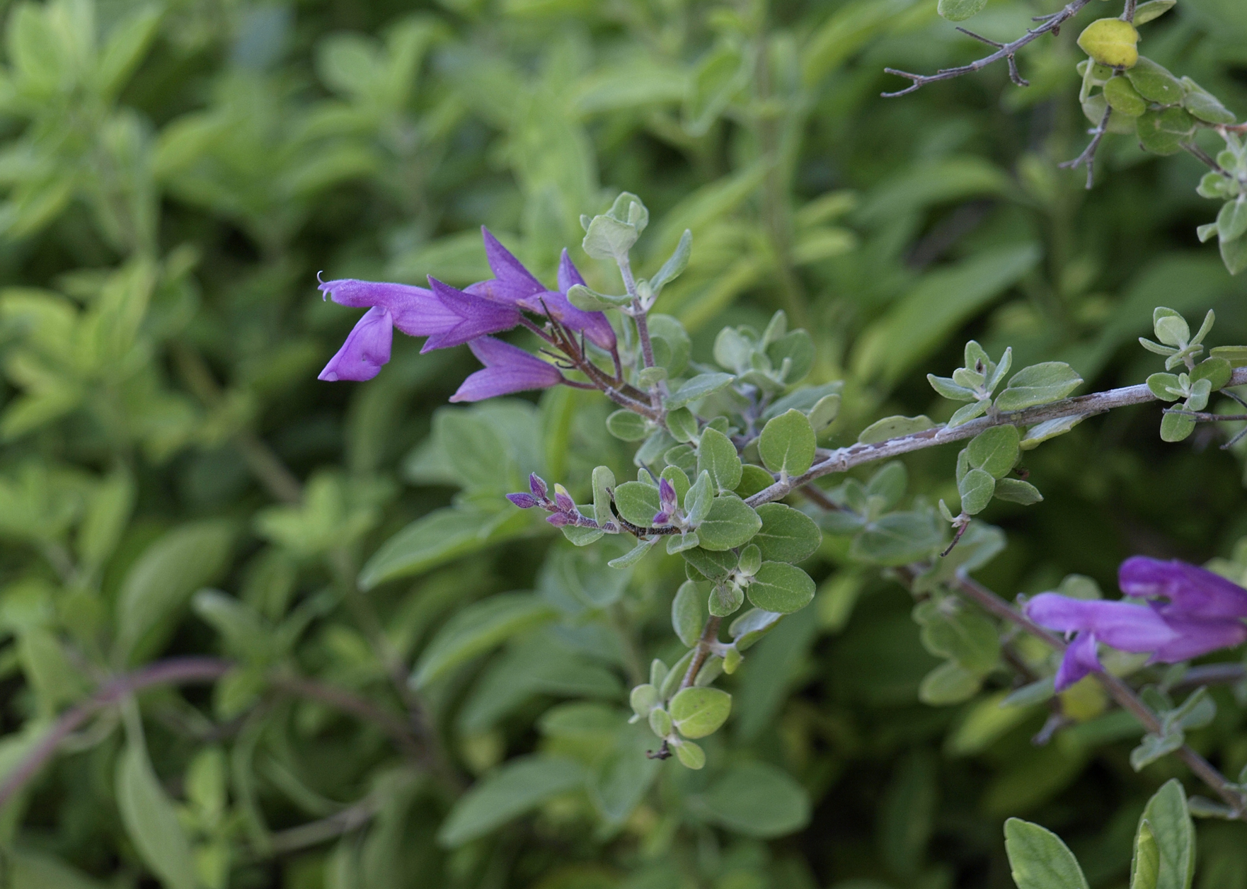 South Miami, Florida, USA.